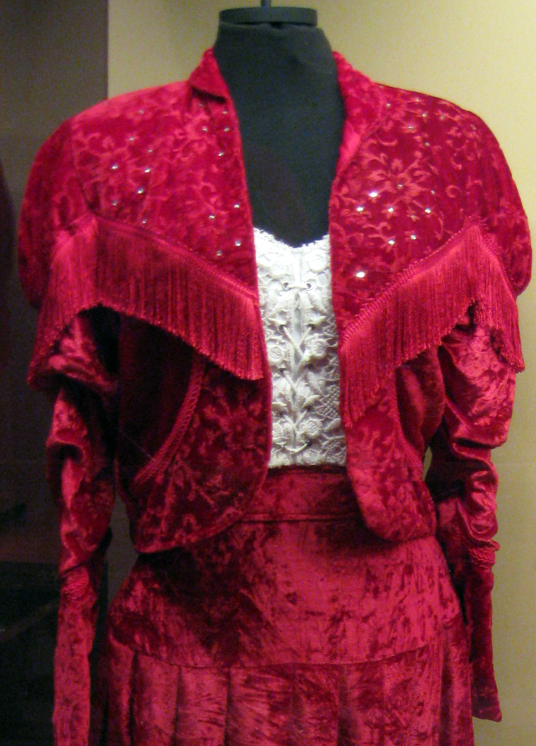 A costume worn by Canadian born country singer Lisa Brokop for the 1993 feature film 'Harmony Cats' (on permanent display at the Surrey Museum in Cloverdale, BC, Canada) Ms. Brokop was raised and educated in Surrey, BC, before travelling to Nashville, Tennessee, in mid-1991 after graduating from High school. She is now married to Paul Jefferson and settled in Tennessee after pursuing her goal of being a country singer.